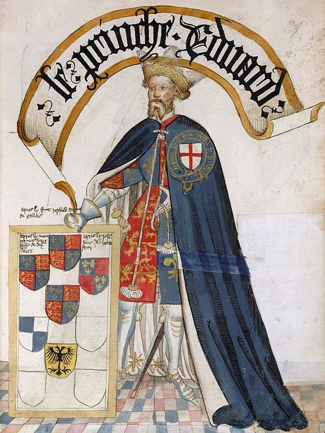 Full page miniature of Edward of Woodstock, the Black Prince, of the Order of the Garter, wearing a blue Garter mantle over plate armour and surcoat displaying his arms. A framed tablet displays painted arms of successors in his Garter stall at St. George's Chapel, Windsor.